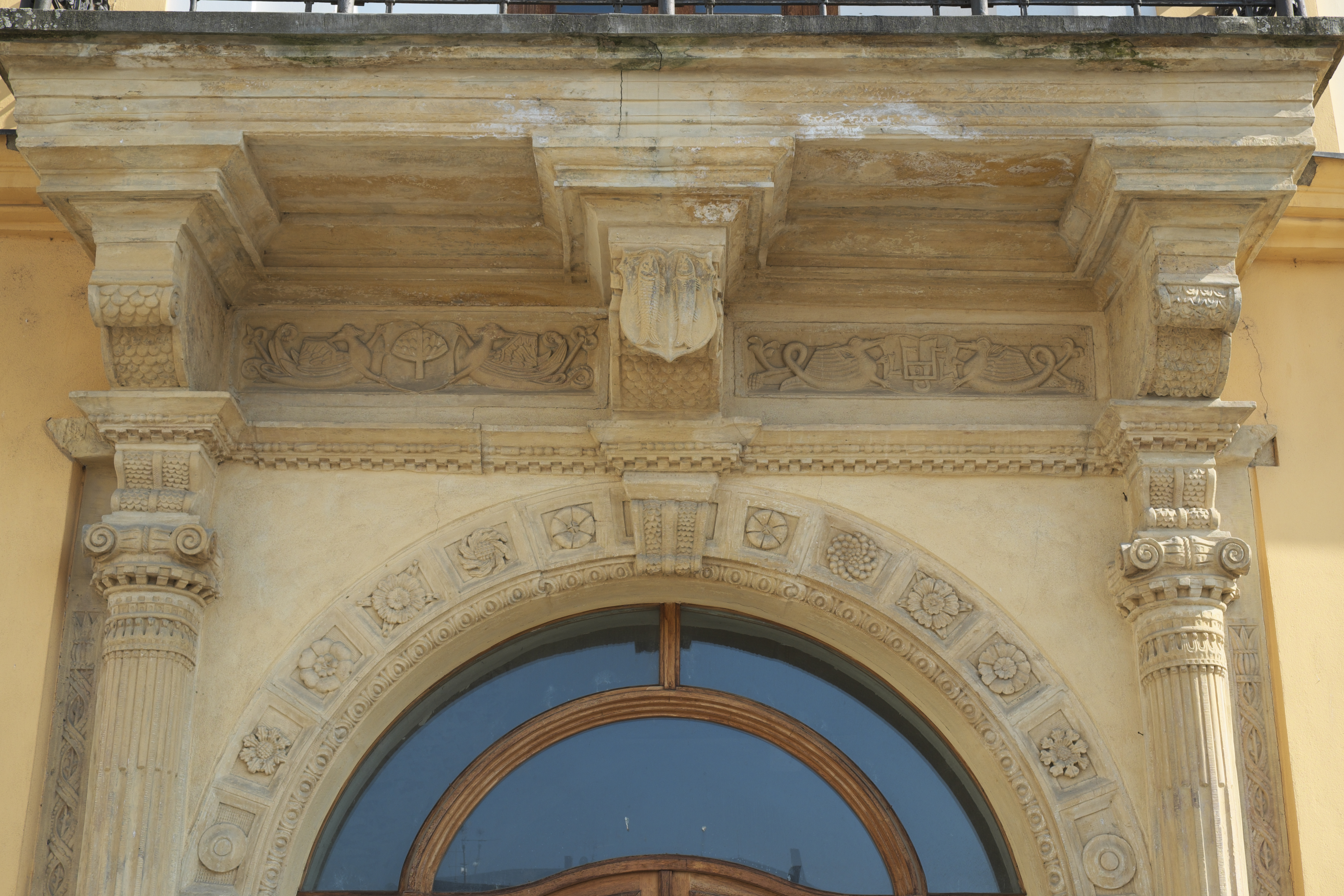 769 at the Přemysla Otakara Square in Litovel, CZ